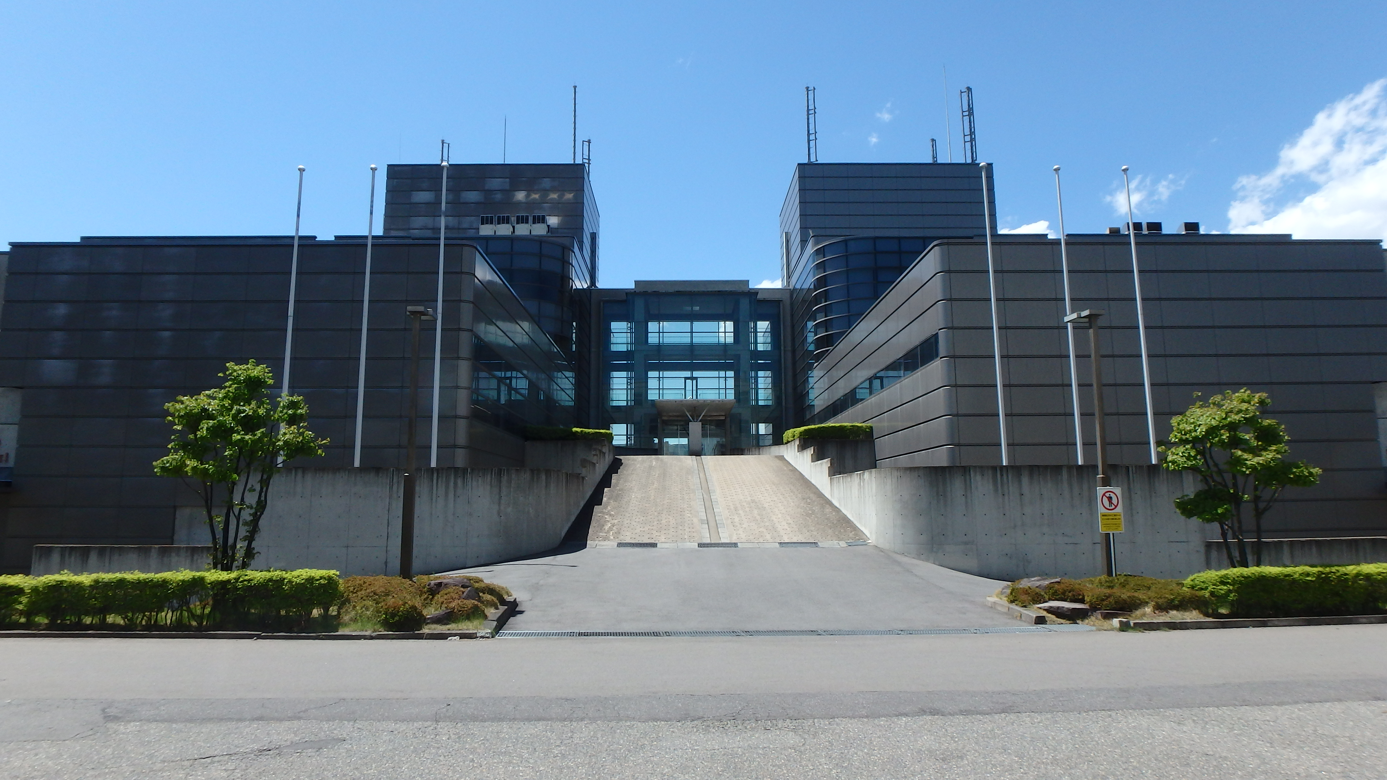 Headquarters of Suzuki Co., Ltd.,Nagano prefecture,Japan